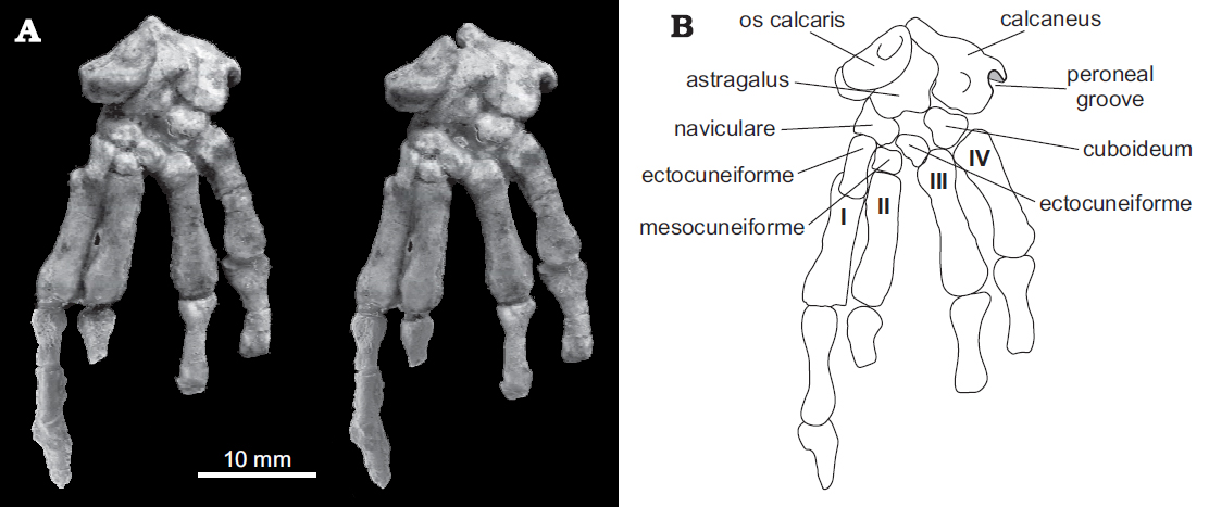 Os calcaris in multituberculates. Left tarsus of Catopsbaatar catopsaloides, PM120/107. A. Stereo−photo in dorsal view. B. Explanatory drawing of the same. The V finger, preserved separately, has not been reconstructed. Upper Cretaceous, red beds of Hermiin Tsav (equivalent of the ?upper Campanian Baruungoyot Formation), Hermiin Tsav II, Gobi Desert, Mongolia.